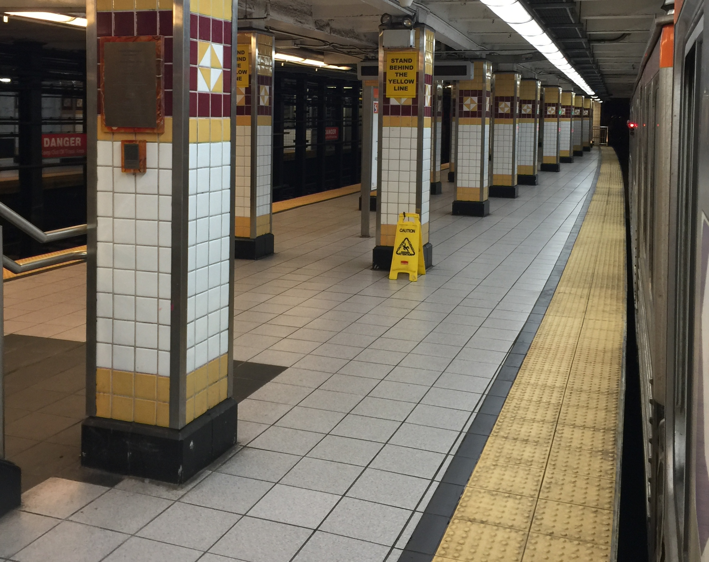 Girard